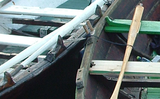 Oarholders on 2 different types of Norwegian rowing-boats, detailcut from bigger photo